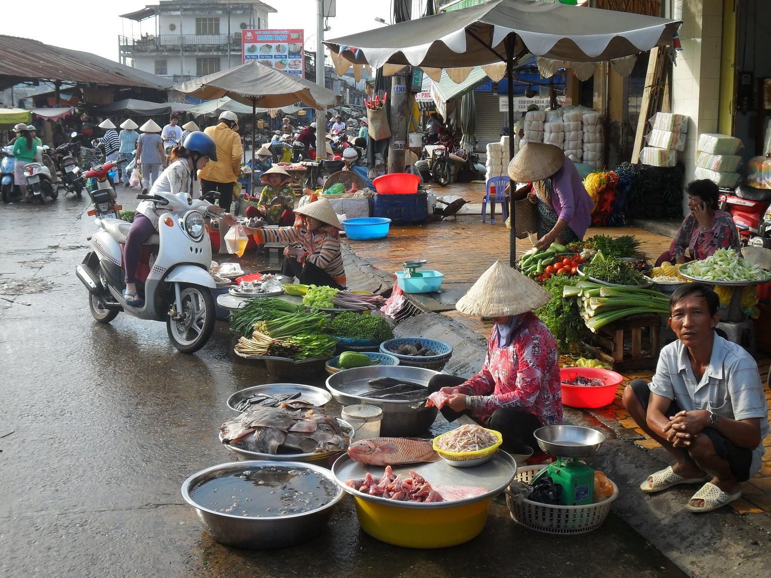 Central Market, My Tho, Vietnam